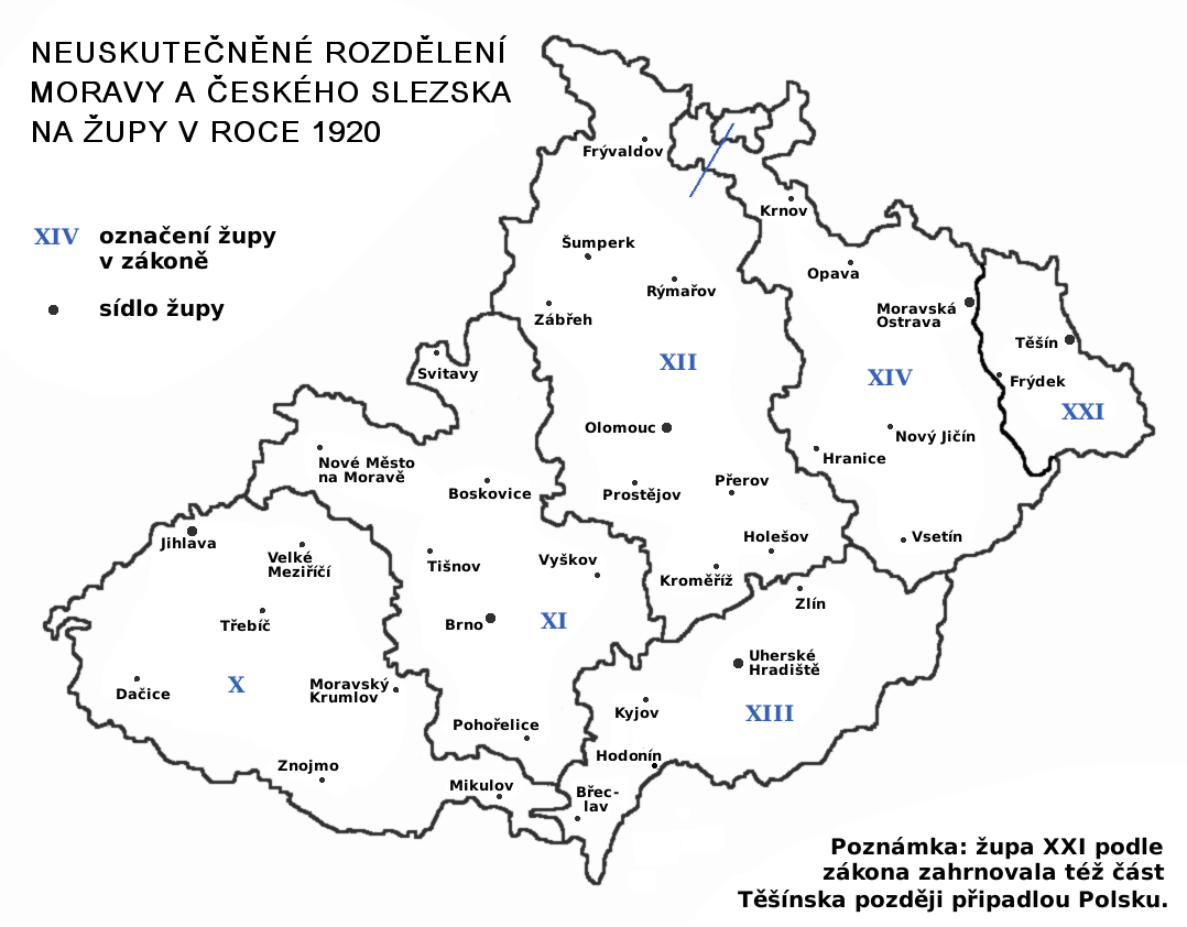 Unhatched district division of Moravia and Czech Silesia, 1920.